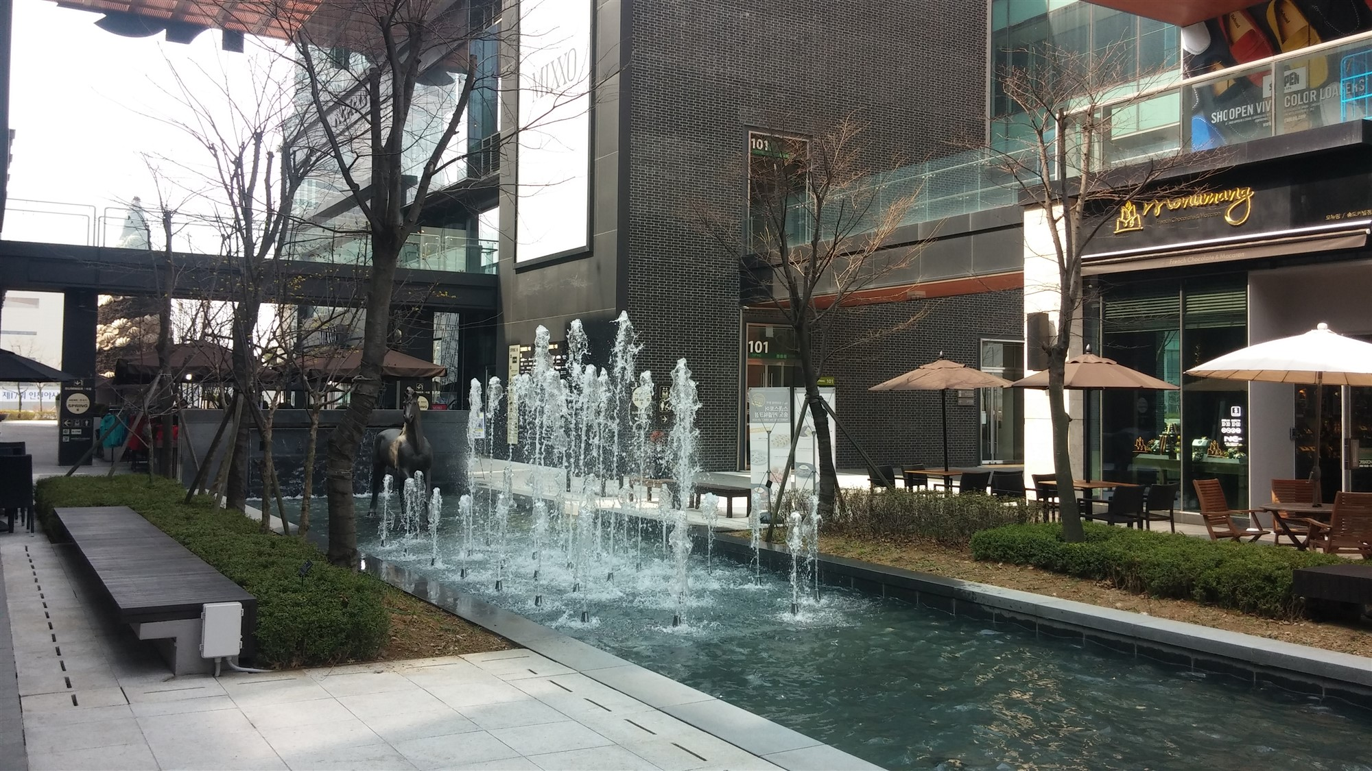 Fountain in Canal City Mall, Songdo, Incheon, South Korea